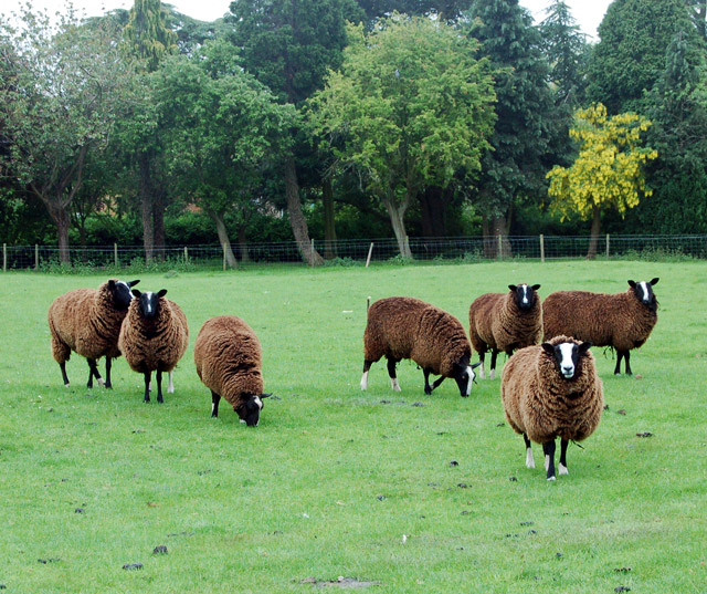 Zwartbles sheep at Home Farm, Broadwell These striking looking sheep are Zwartbles, a Dutch breed.